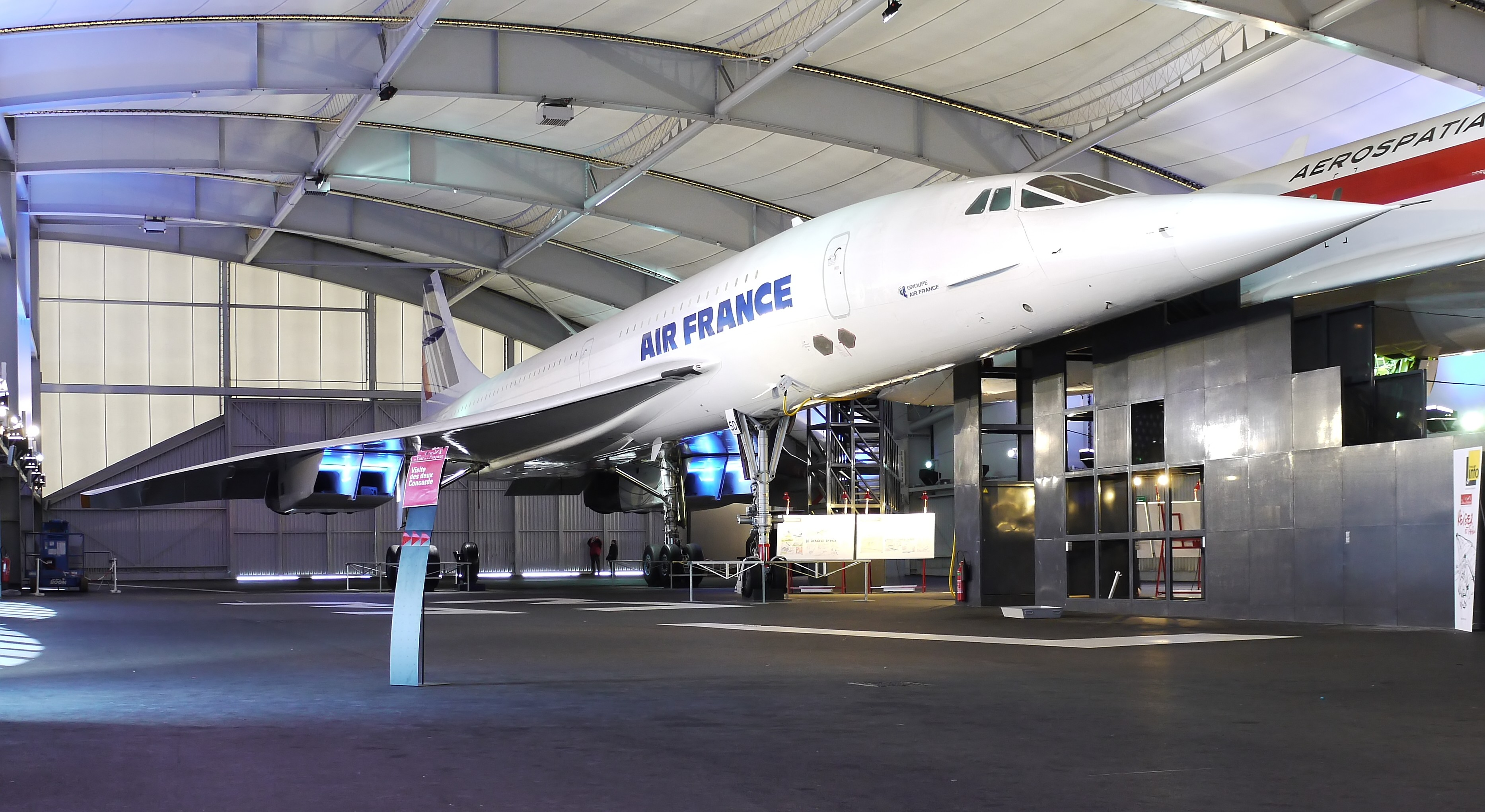 Concorde 001 Air France (1969), Museum of Air and Space Paris, Le Bourget (France)